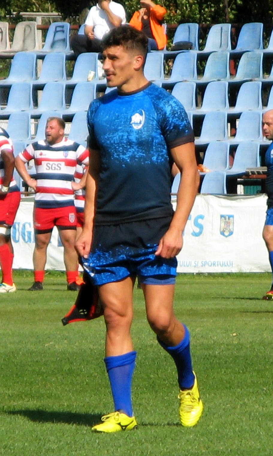 Romanian rugby union international Ionuț Botezatu, player of CSM Baia Mare rugby club seen in a match against CSA Steaua București in Round 5 of Romanian Rugby SuperLiga in September 2017